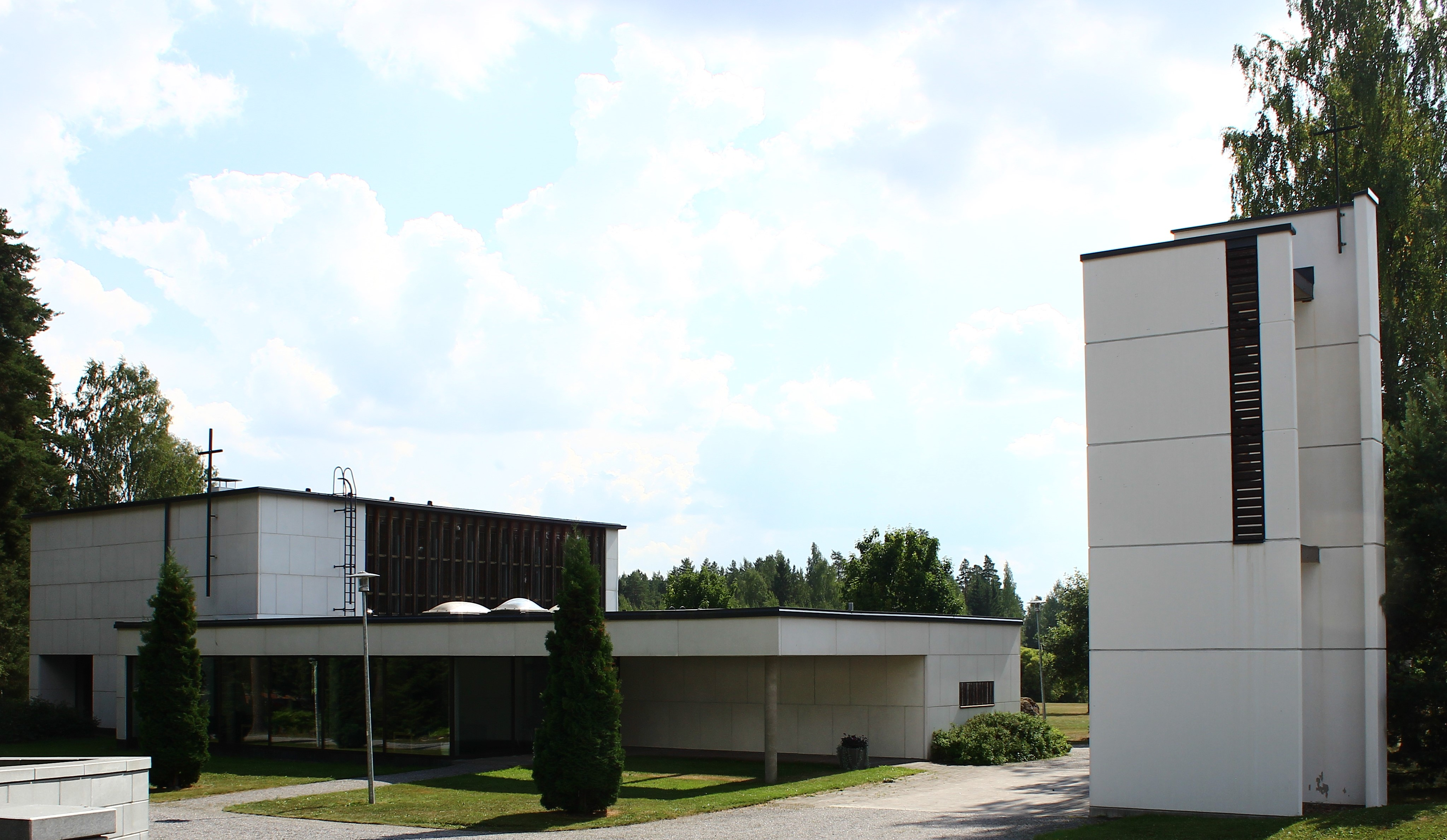 Ristimäki cemetery chapel